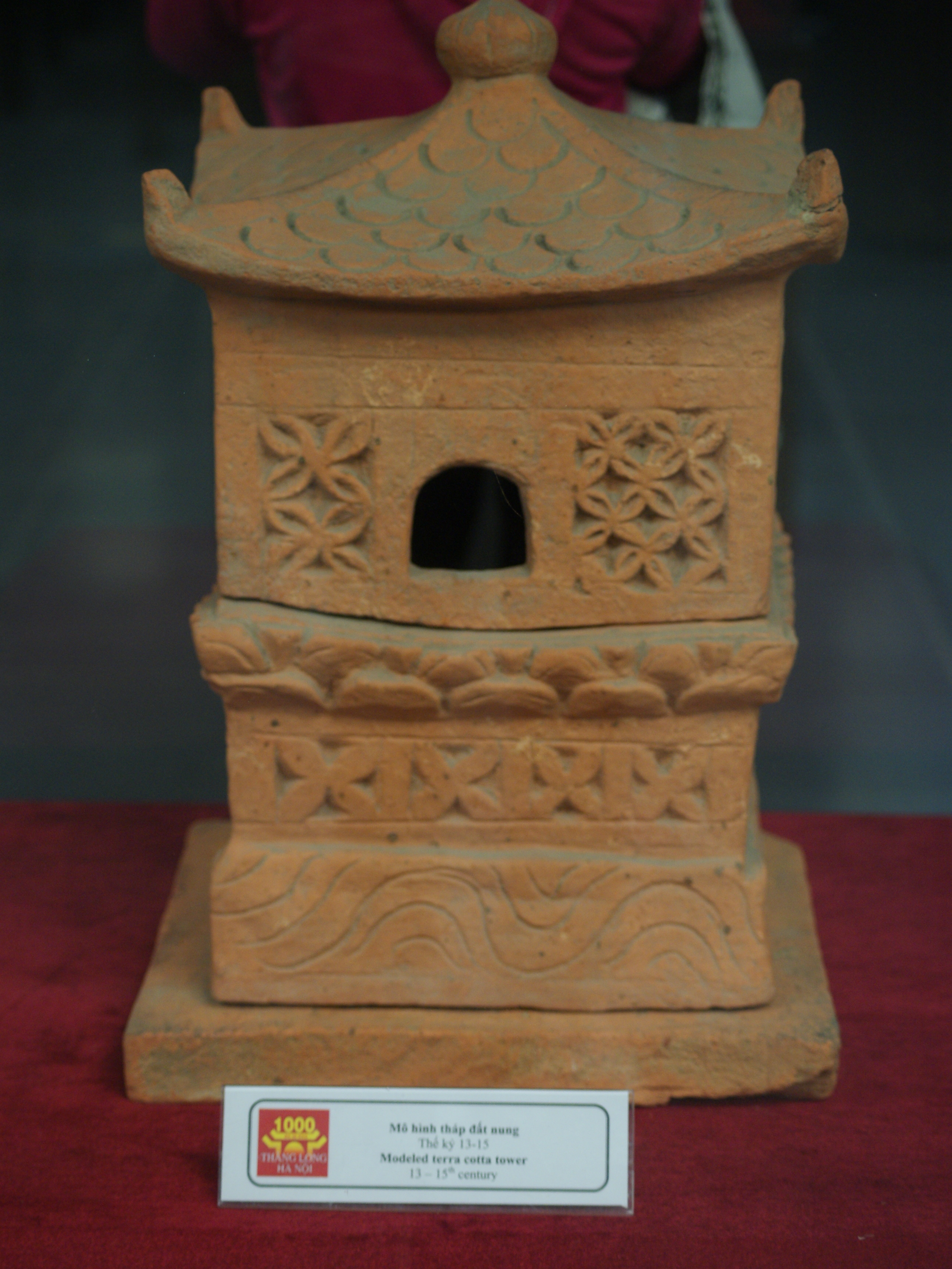 Terracotta miniature tower, Trần dynasty, 13th-15th century.